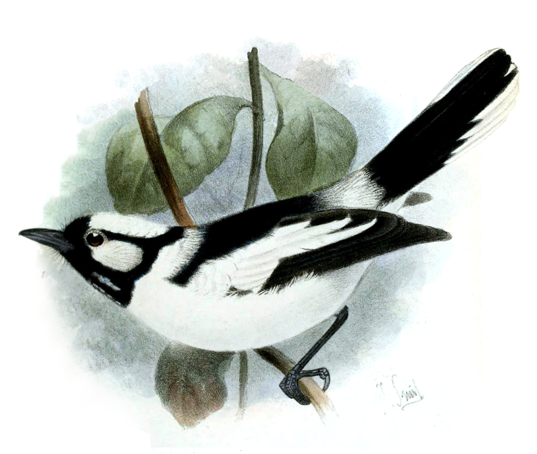 Loetoe Monarch